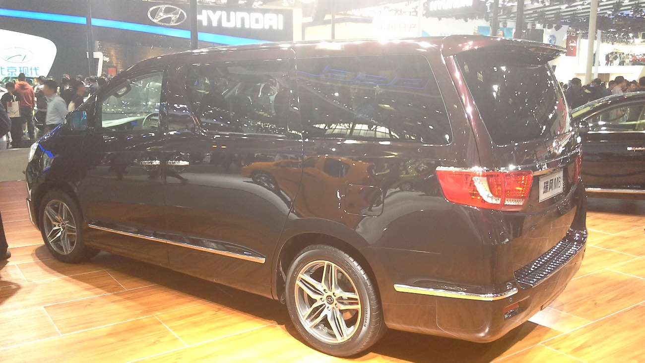 JAC Refine M6 photographed at the Auto China 2014, Beijing, China.